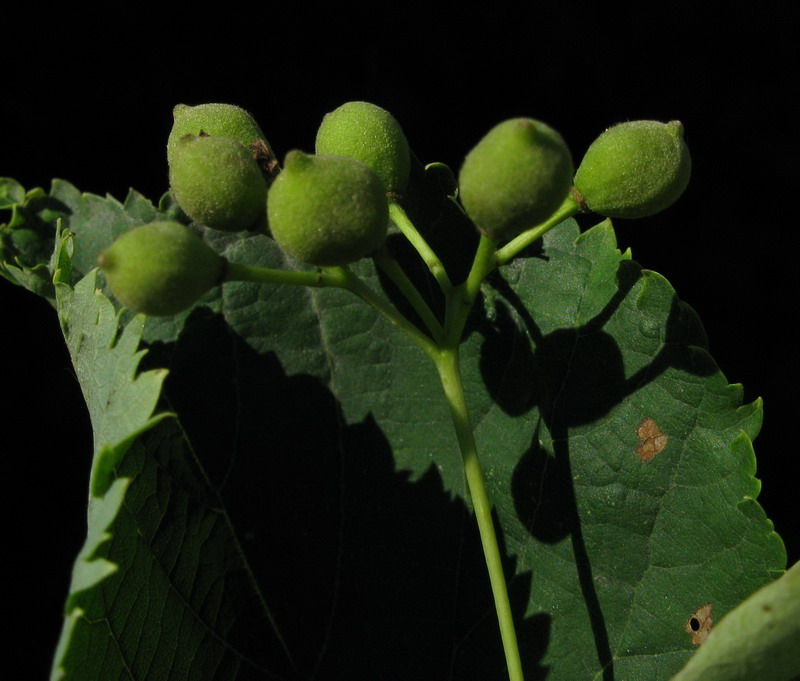 Fruits of siberian Lime (Tilia sibirica)